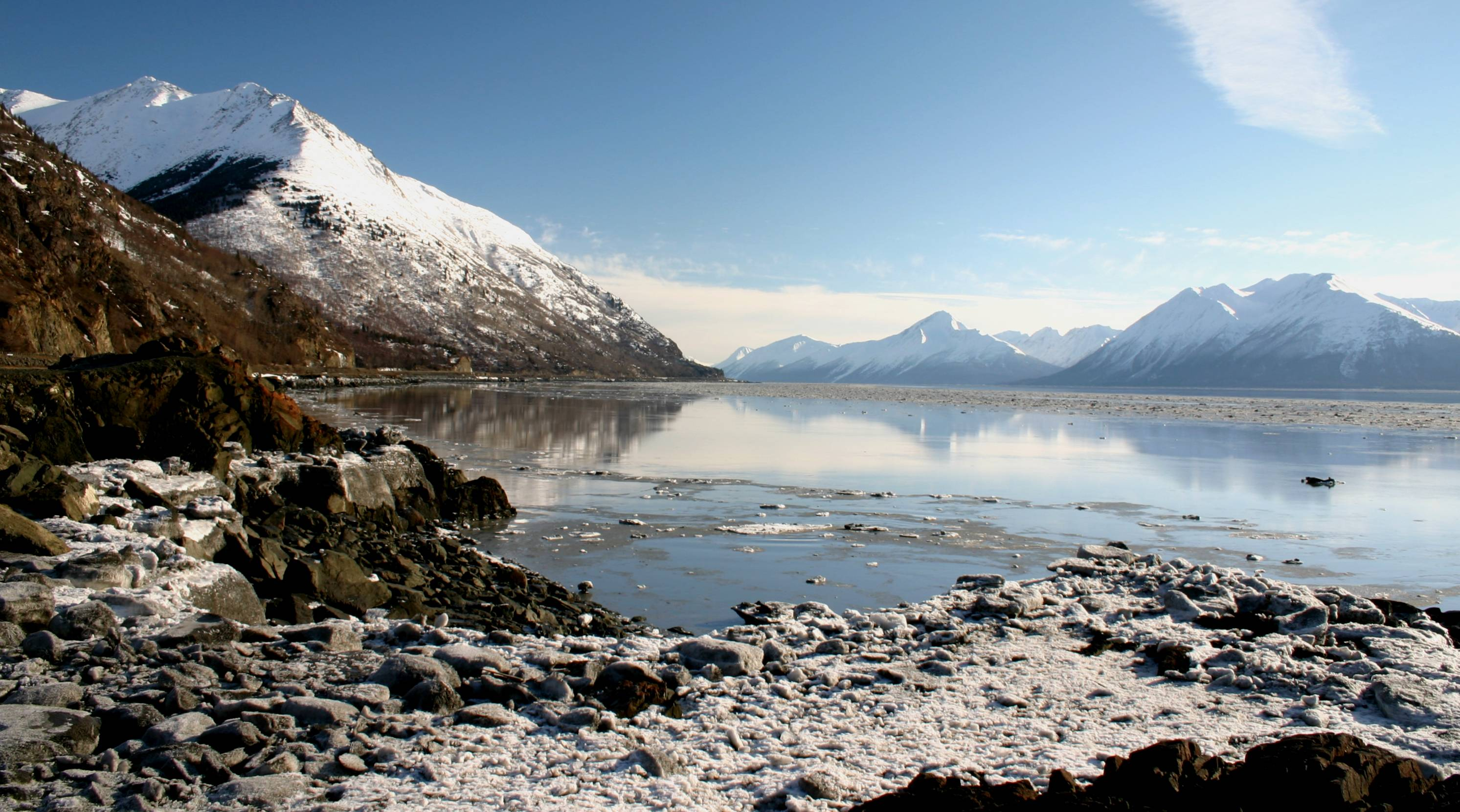 Taken on a Sunday afternoon while working on the NYT crossword puzzle at Beluga Point, south of Anchorage, Alaska in February 2008.